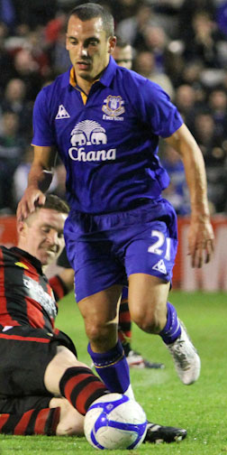 Leon Osman of Bohemians FC.